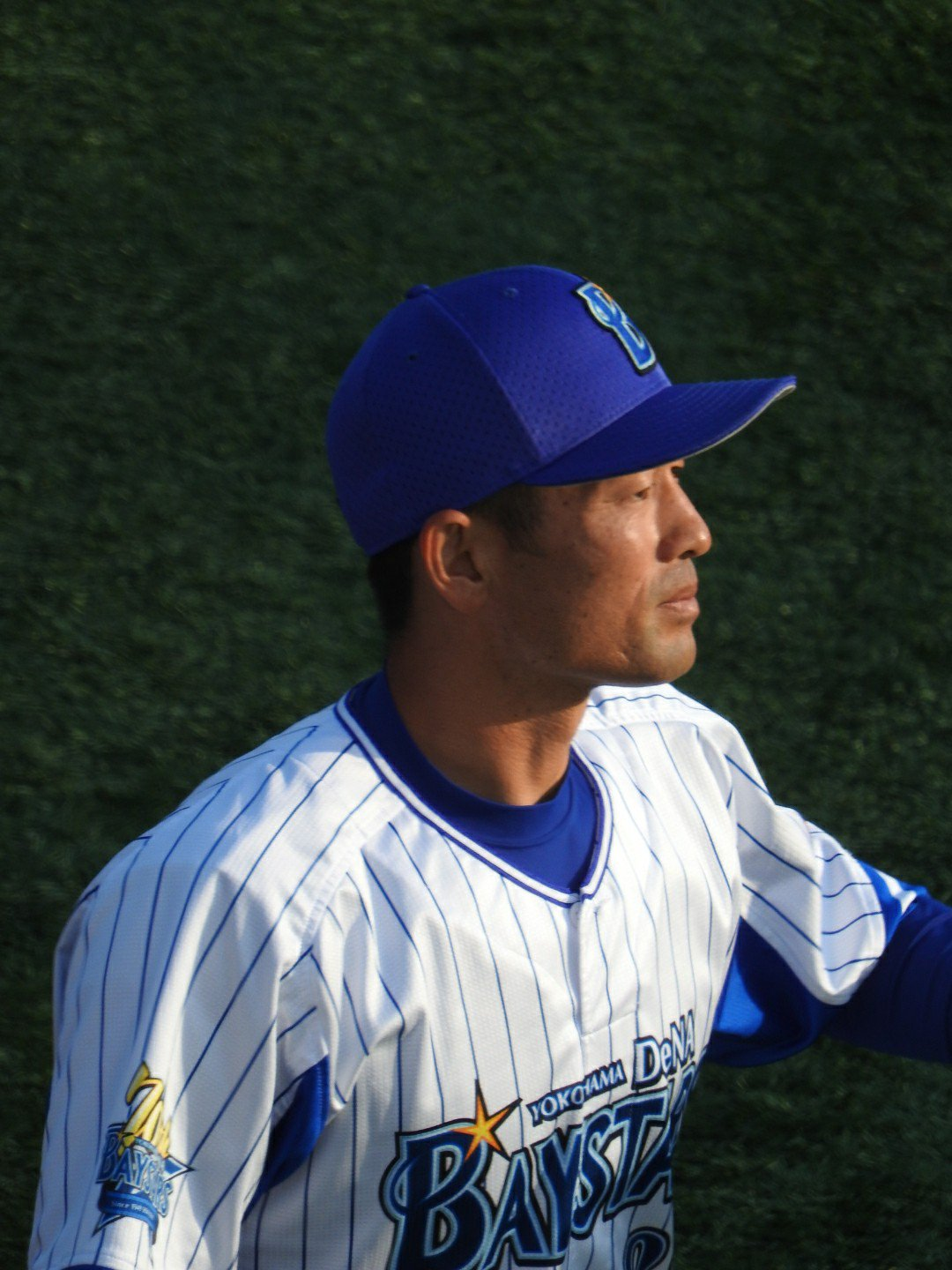 baseball coach of NPB.